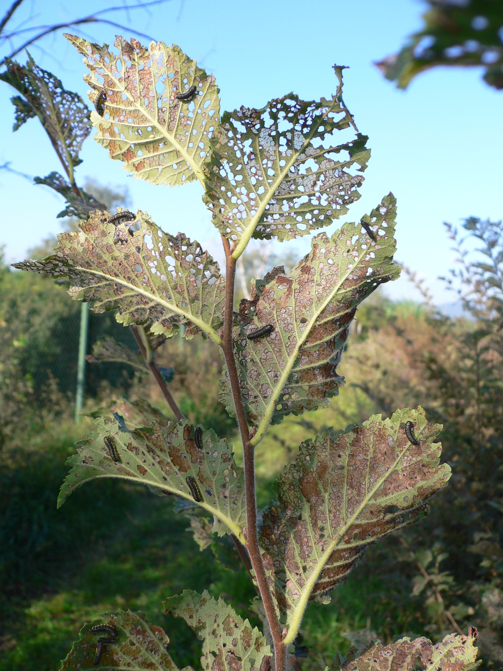 larvae of Elm Leaf Beetle (Xanthogaleruca luteola) (Müller 1766), on elm, skeletonized leafes - Haßloch (Pfalz), Germany